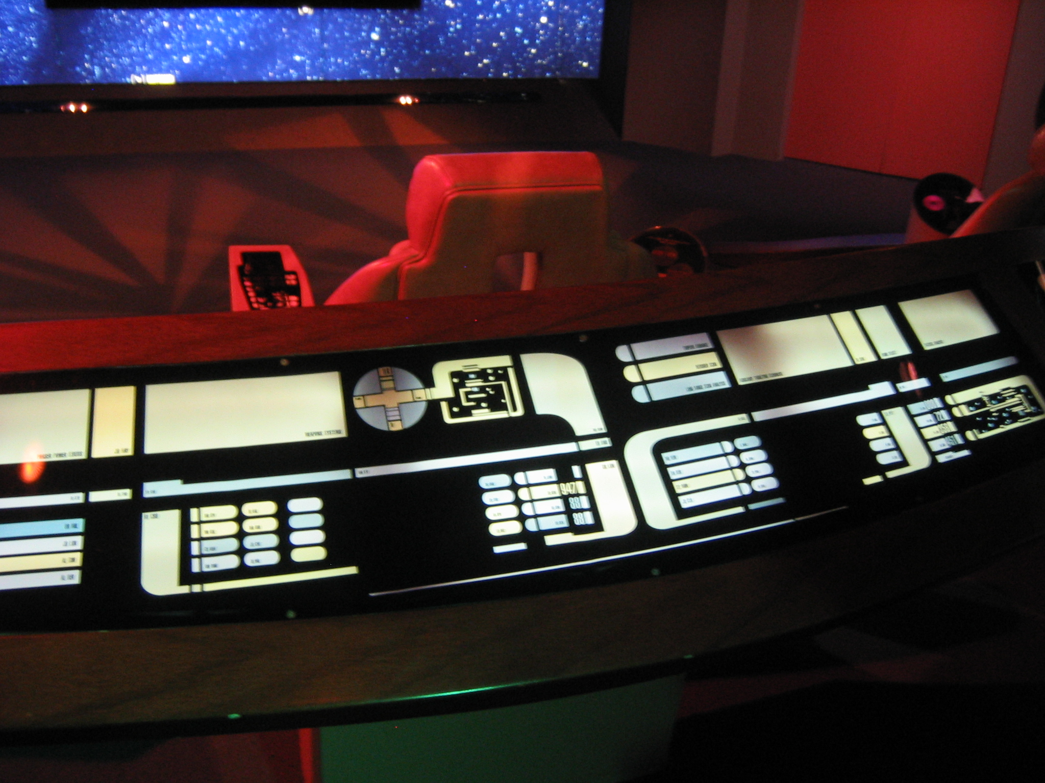 Michael Dorn (aka Worf) stood behind this railing on the bridge of the Enterprise-D every week on Star Trek: The Next Generation. With the headrest of the Captain's chair just visible over the railing.